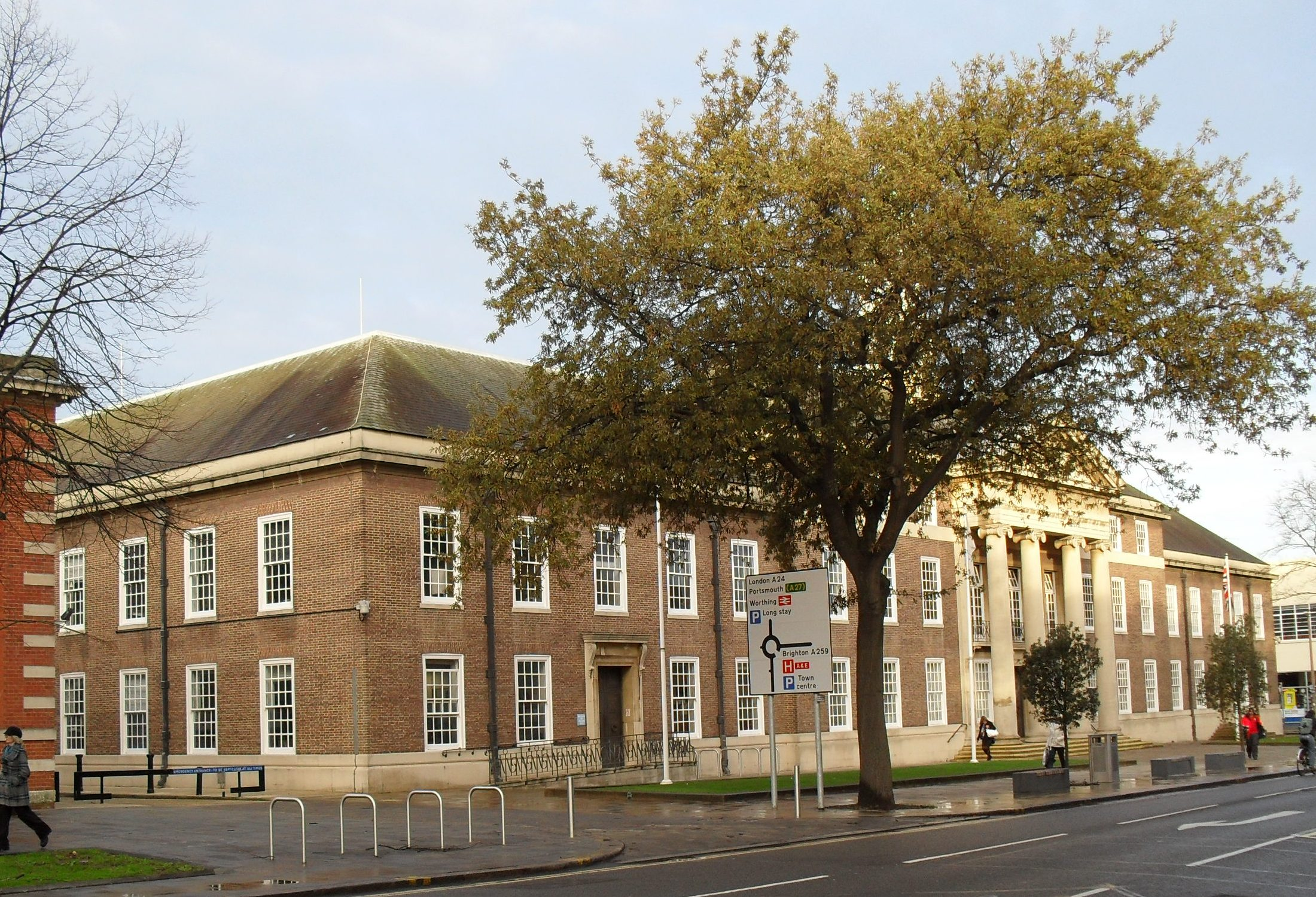 Worthing Town Hall, Chapel Road, Worthing, West Sussex, England. Built by Charles Cowles-Voysey in 1933 in a Neo-Georgian style. Listed at Grade II by English Heritage (IoE Code 433265)